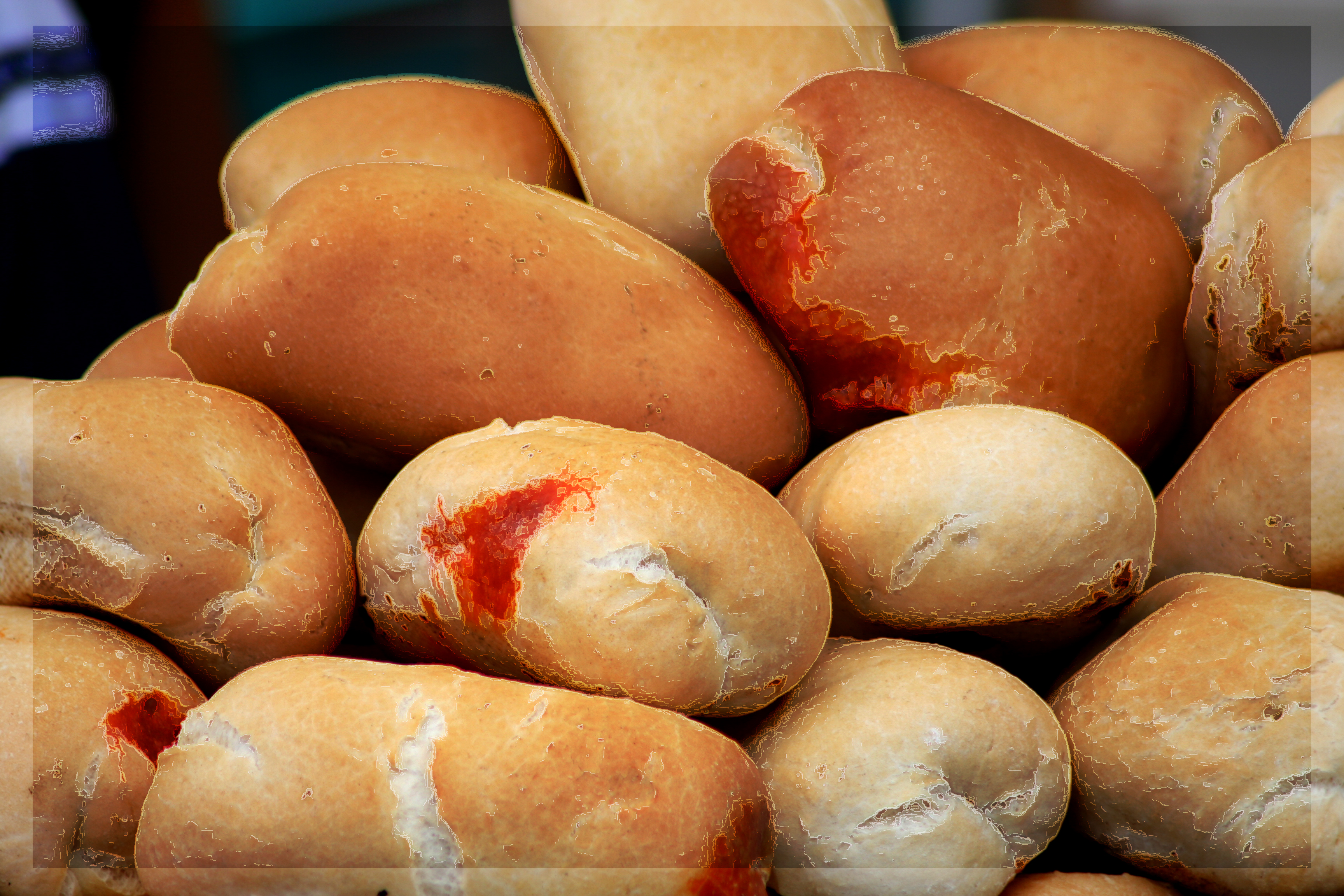 Bollos preñaos, literally "Pregnant buns" an Asturian (North Spanih) speciality made from bread, chorizo and bacon.